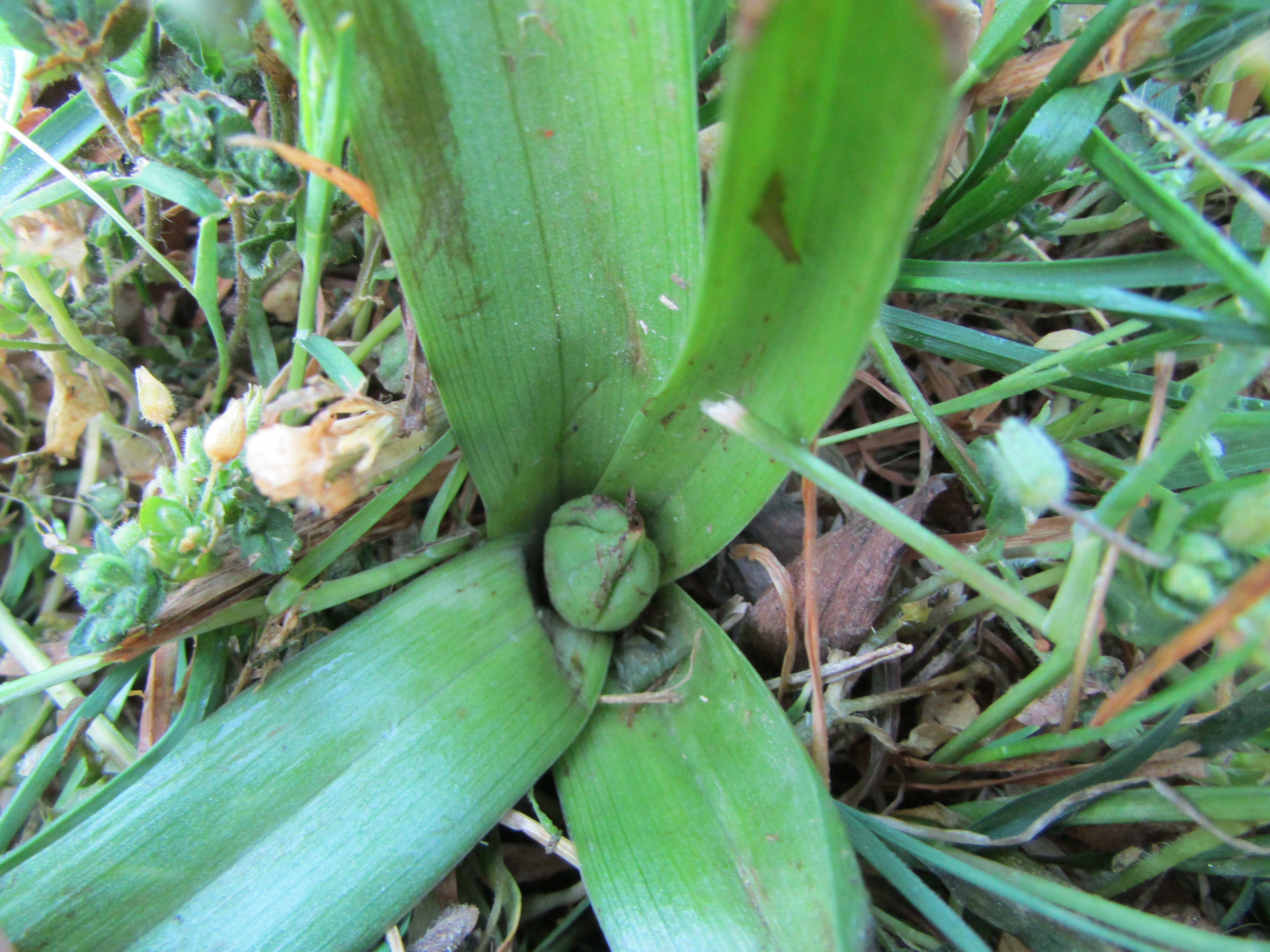 Colchicum lusitanum the fruit in spring